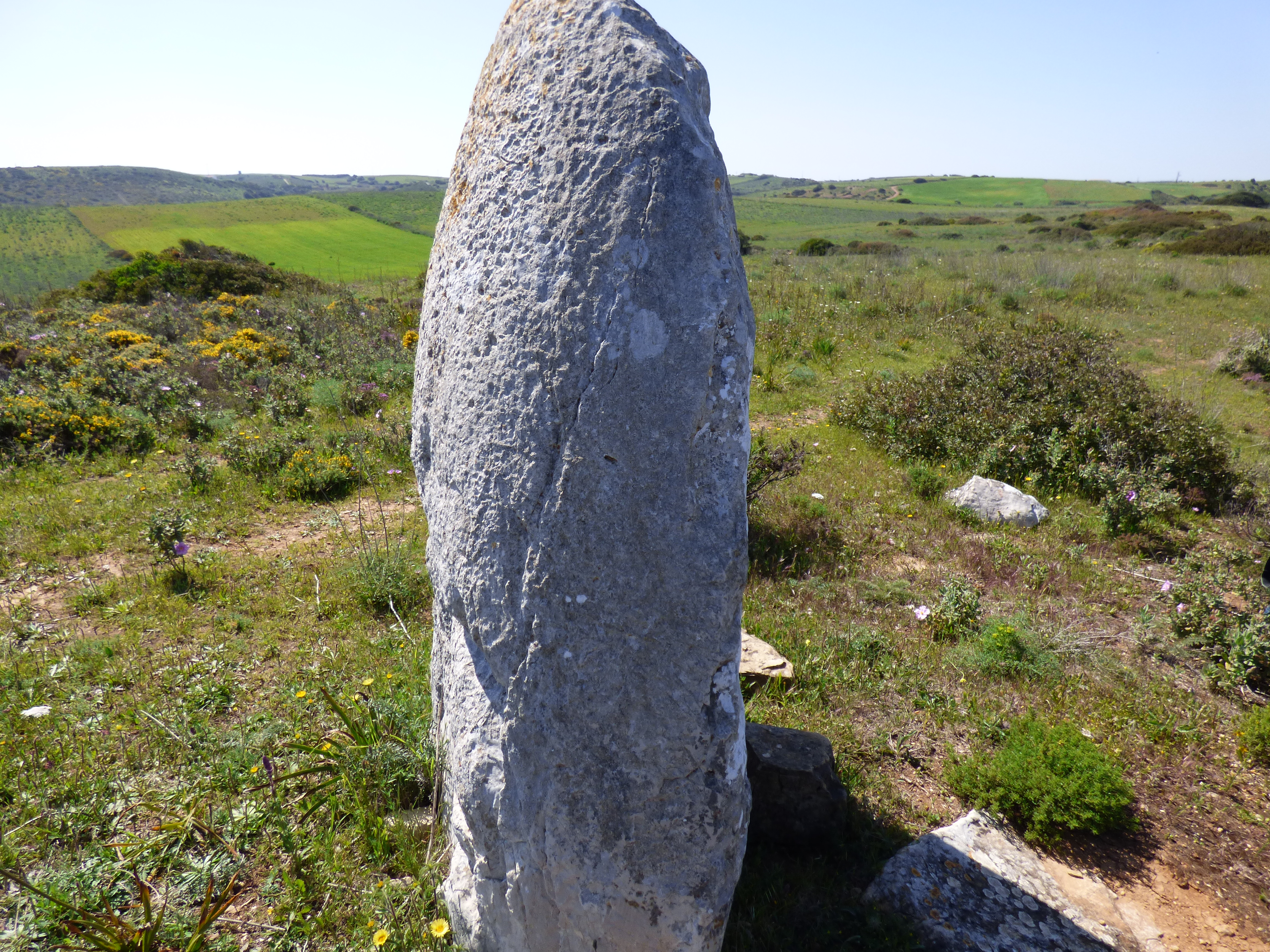 Menhir de Aspradantes, the only menhir in the Algarve who stood up to this day.